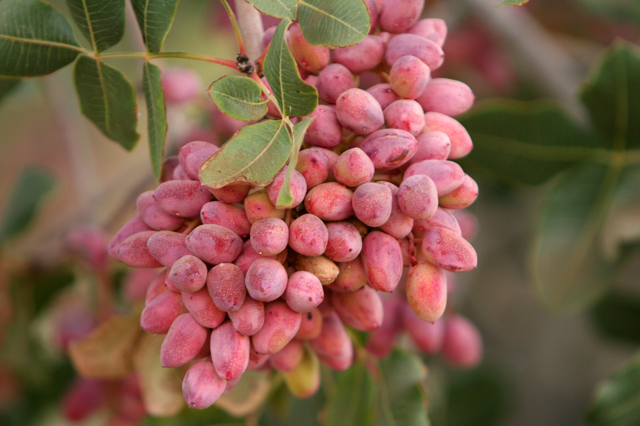 Pistachios Torbat-e-Heydariyeh pistachio farms, Razavi Khorasan Province, Iran - September 22, 2007 (1386/06/31) Photo by: Safa Daneshvar Thanks to: Faraz Saffron Company, Tehran, Iran